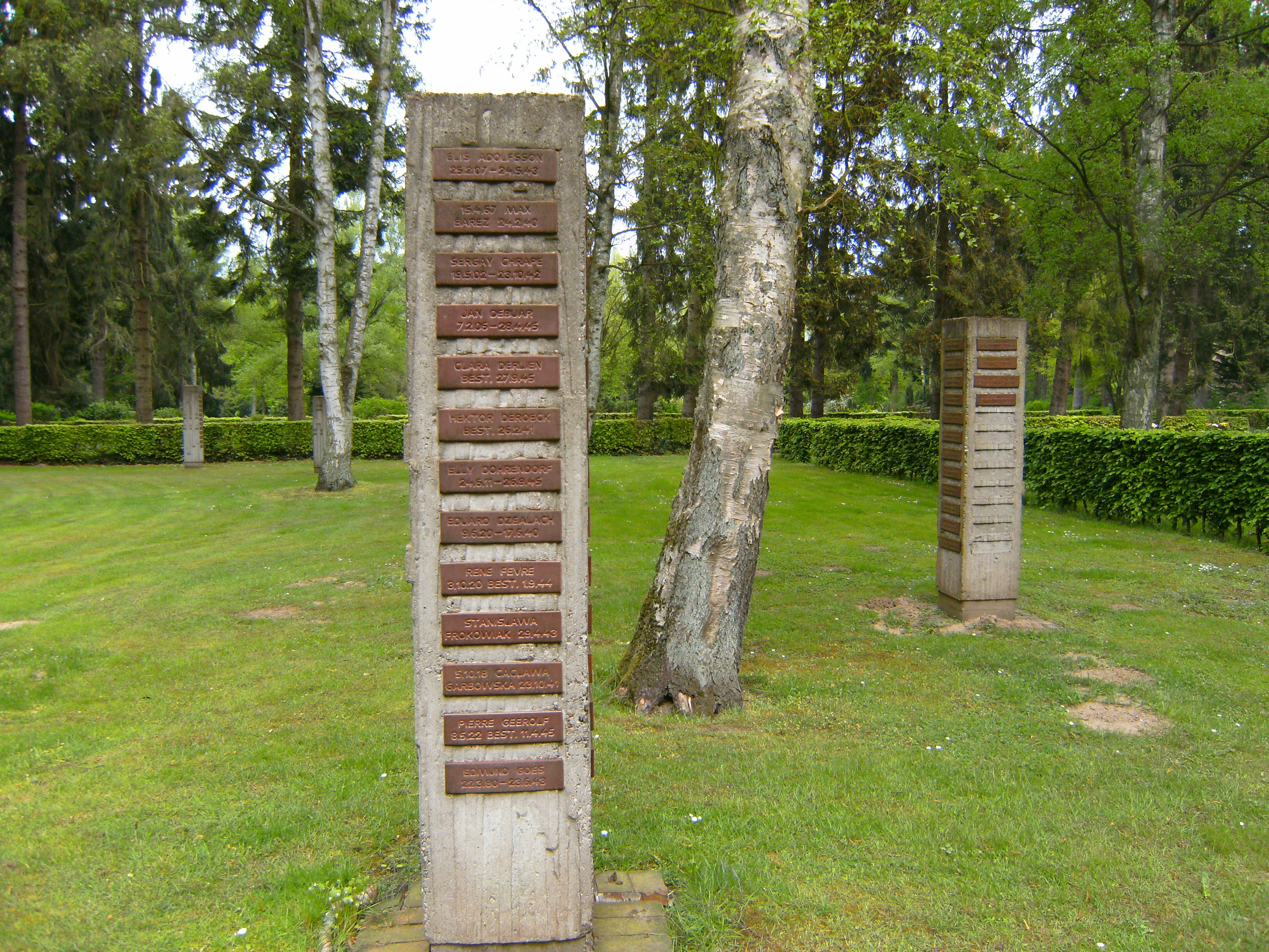 Vorwerker Friedhof in Lübeck, block 13. War cemetery. Funeral steles for male and female victims. Dates of death ca. 1941-1945.